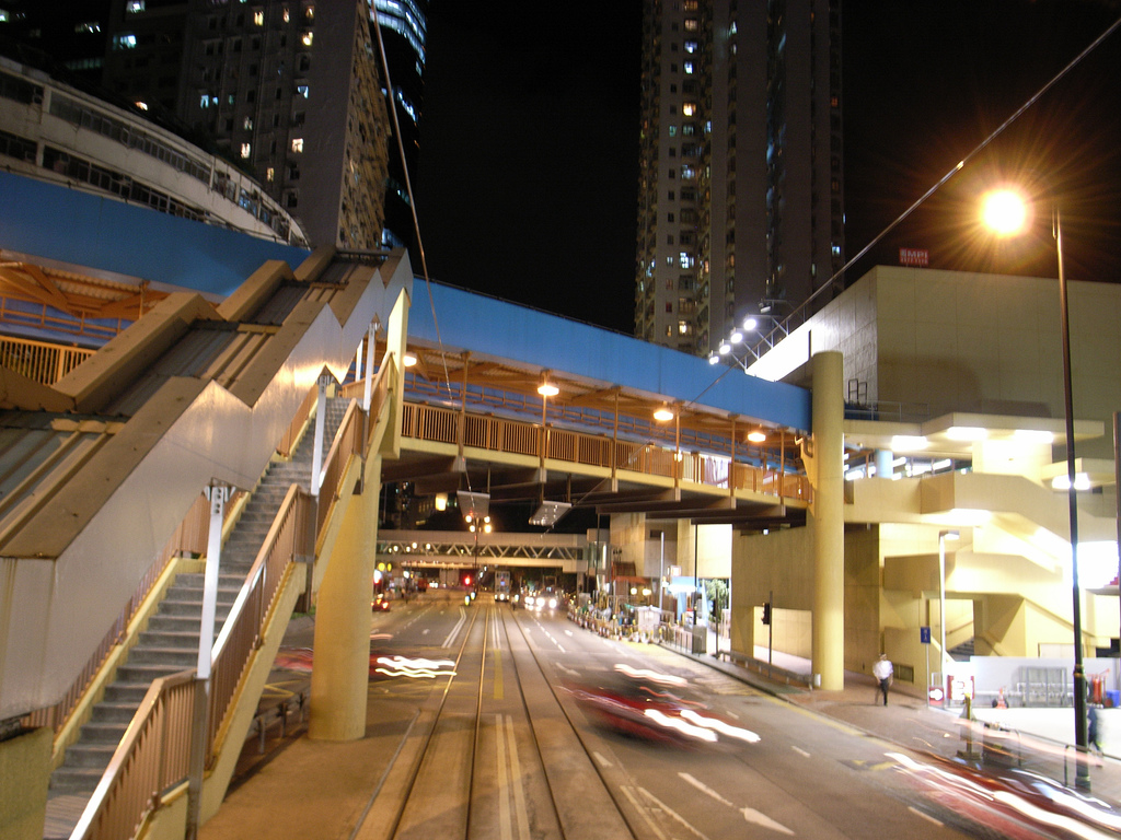 The pedestrian bridge over King's Road to Quarry Bay MTR Station, Quarry Bay, Hong Kong.